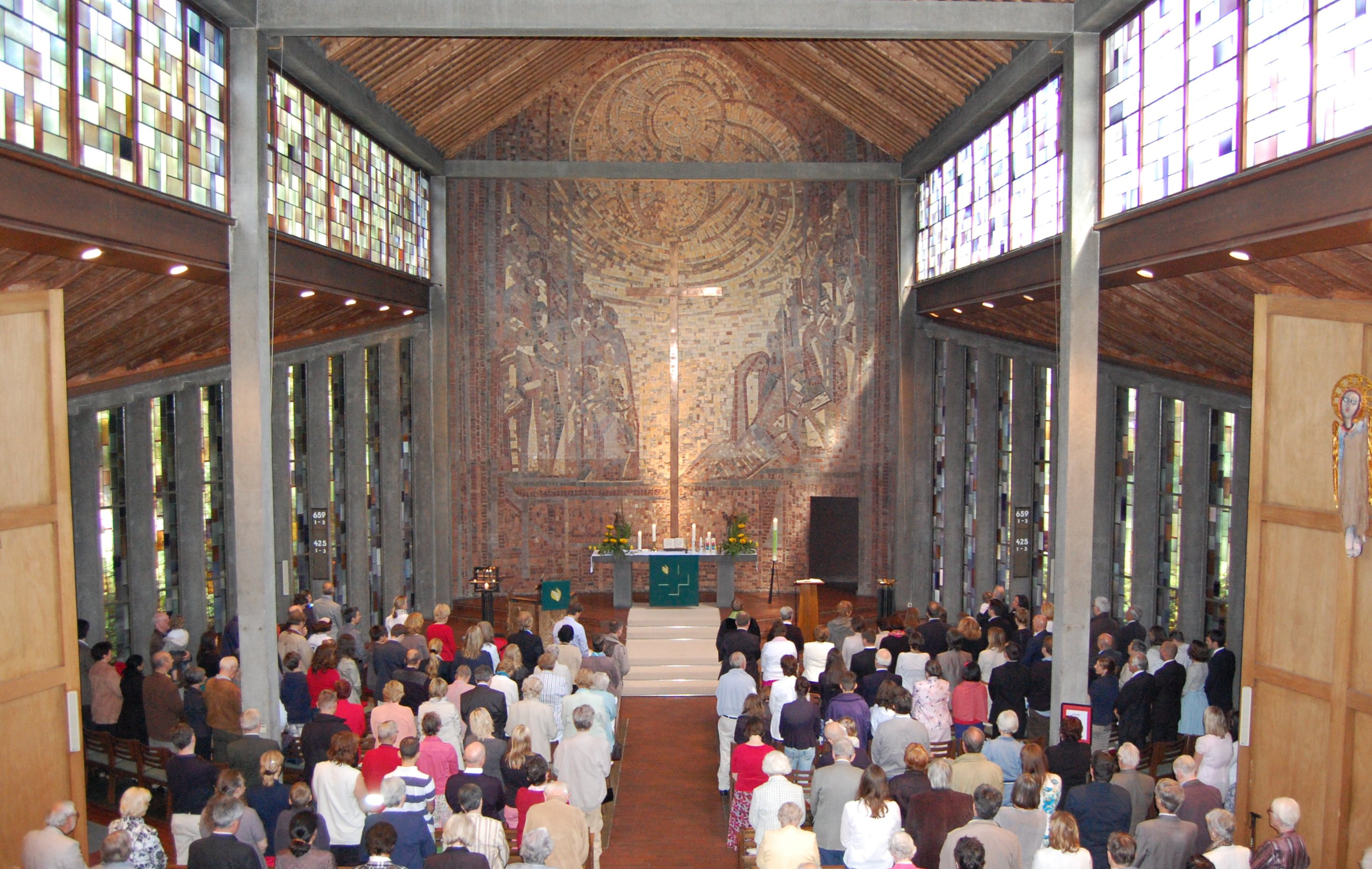 Interiour of Christuskirche Bad Godesberg during Sunday service